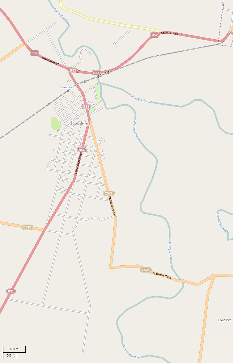 Street Map of Longford, Tasmania, Australia and immediate surrounding area, taken from